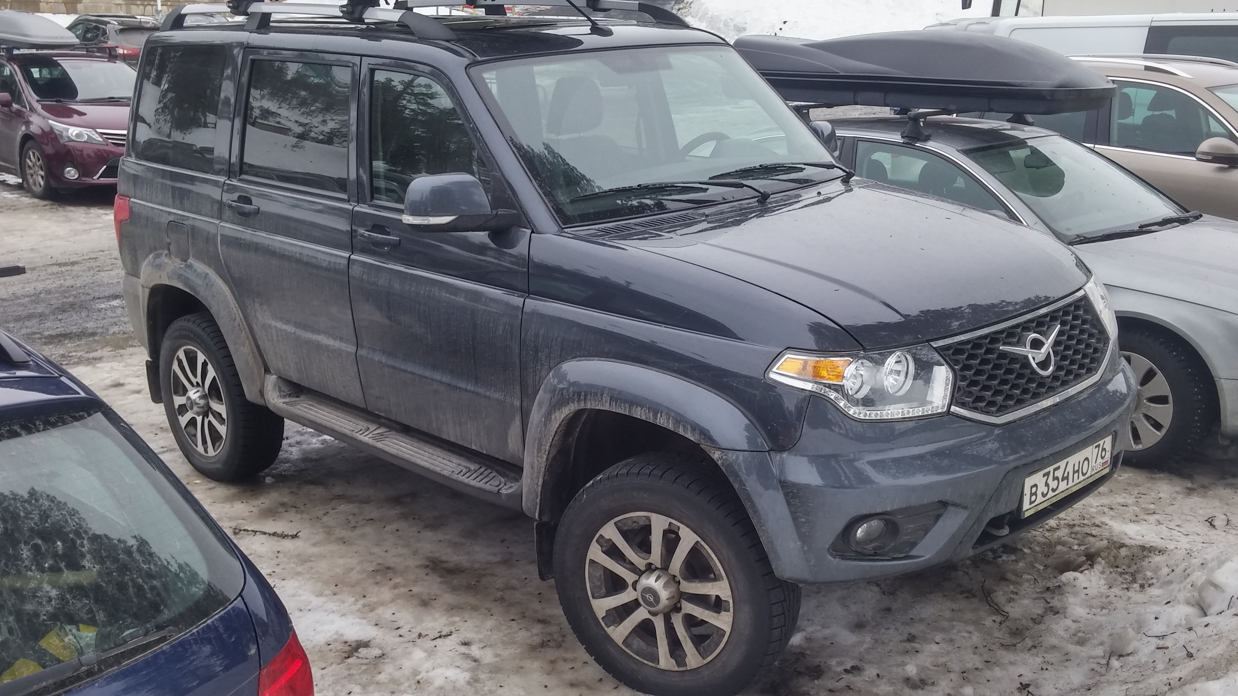 UAZ Patriot